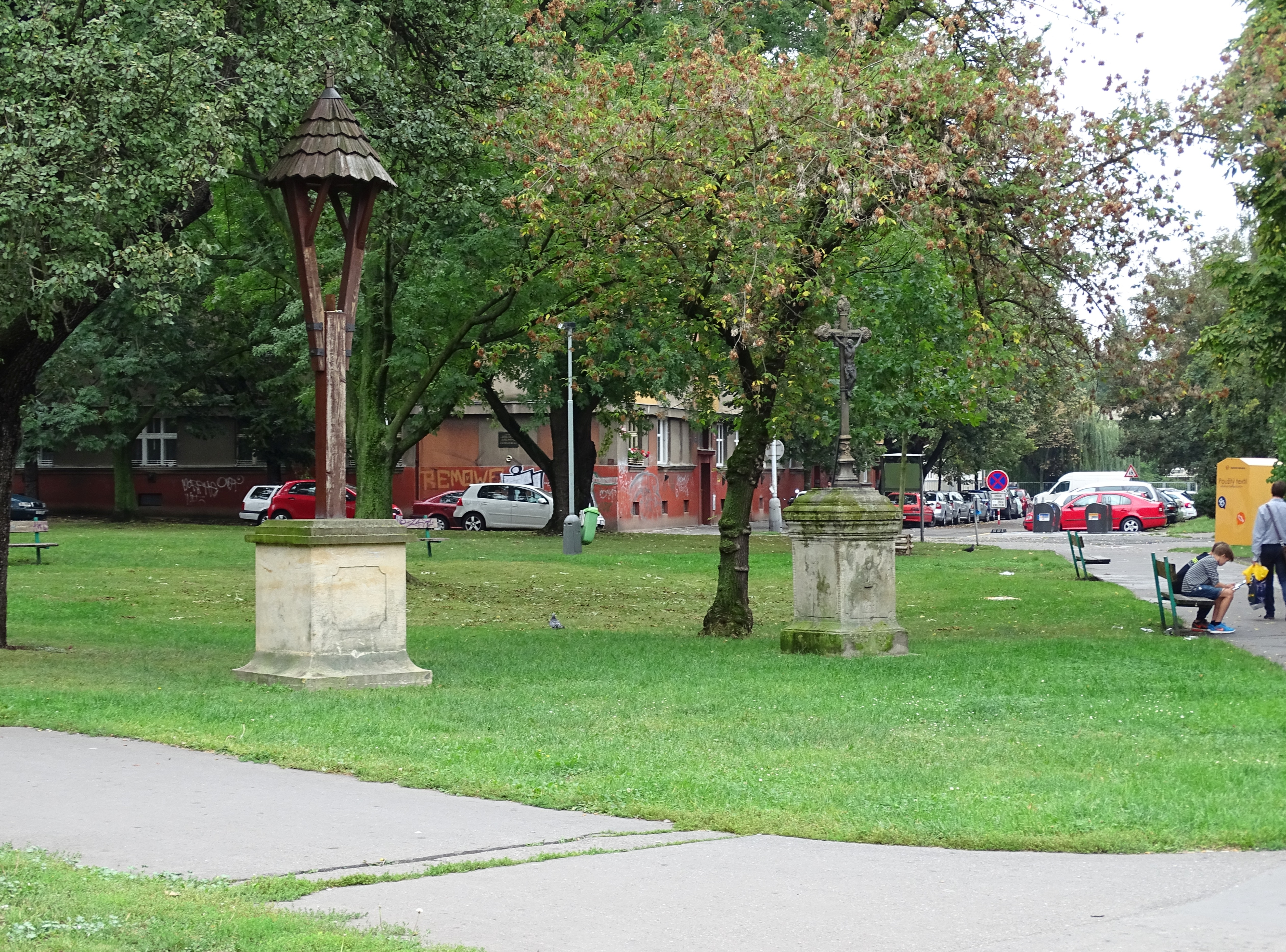 Prague-Vysočany, Czechia. UNO Square, a cross and bell tower in the park.